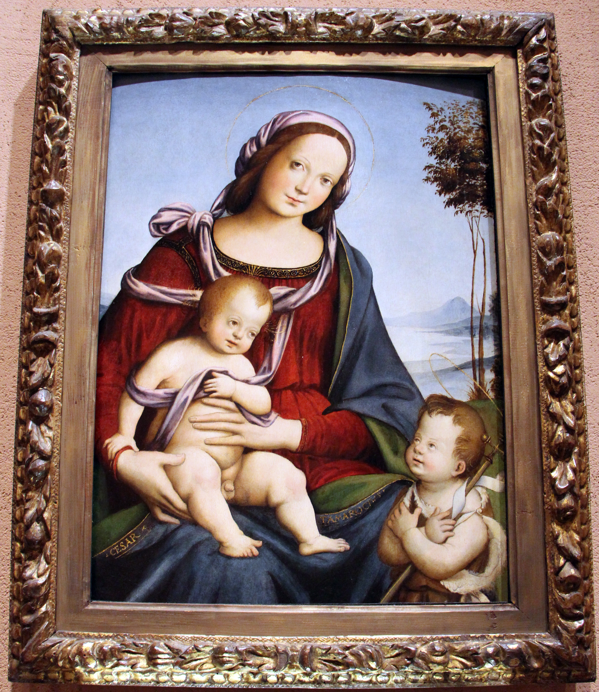 Paintings in the Museo Poldi Pezzoli (Milan)